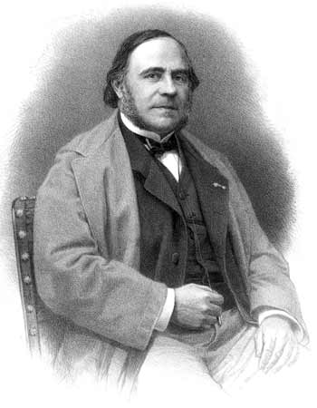 French naturalist Victor Coste (1807-1873)